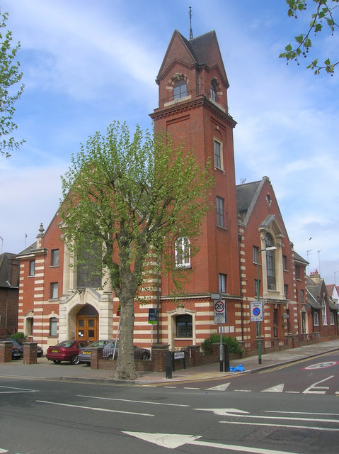 Cricklewood Bapist Church, Anson Road at the Junction with Sneyd Road.